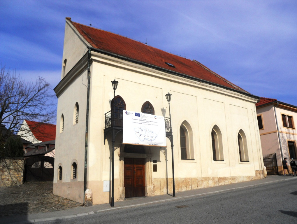 Boskovice Synagogue (1639)